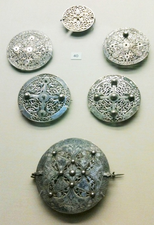 Early 9th century Anglo-Saxon silver brooches found at Pentney, Norfolk in 1977. On display at the British Museum, London.